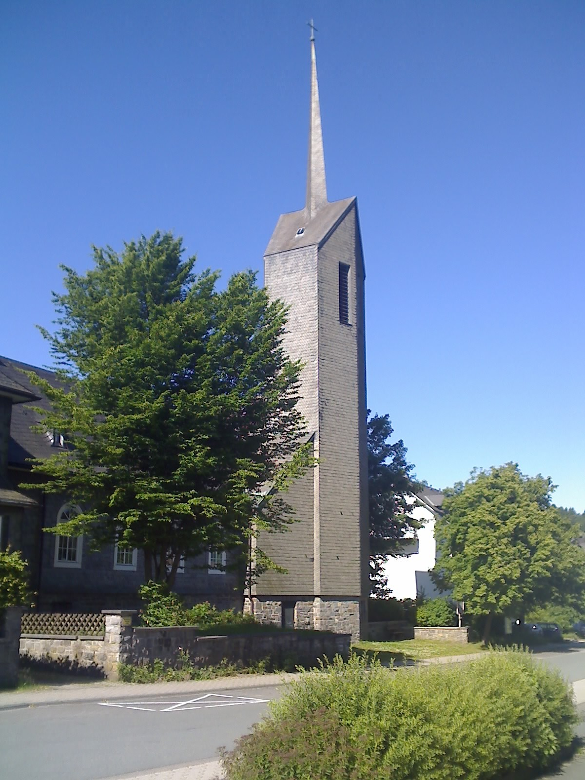 Protestant church in Winterberg, Germany